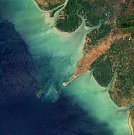 Satalite image from NASA, 2004, croped to show Conakry, Guinea